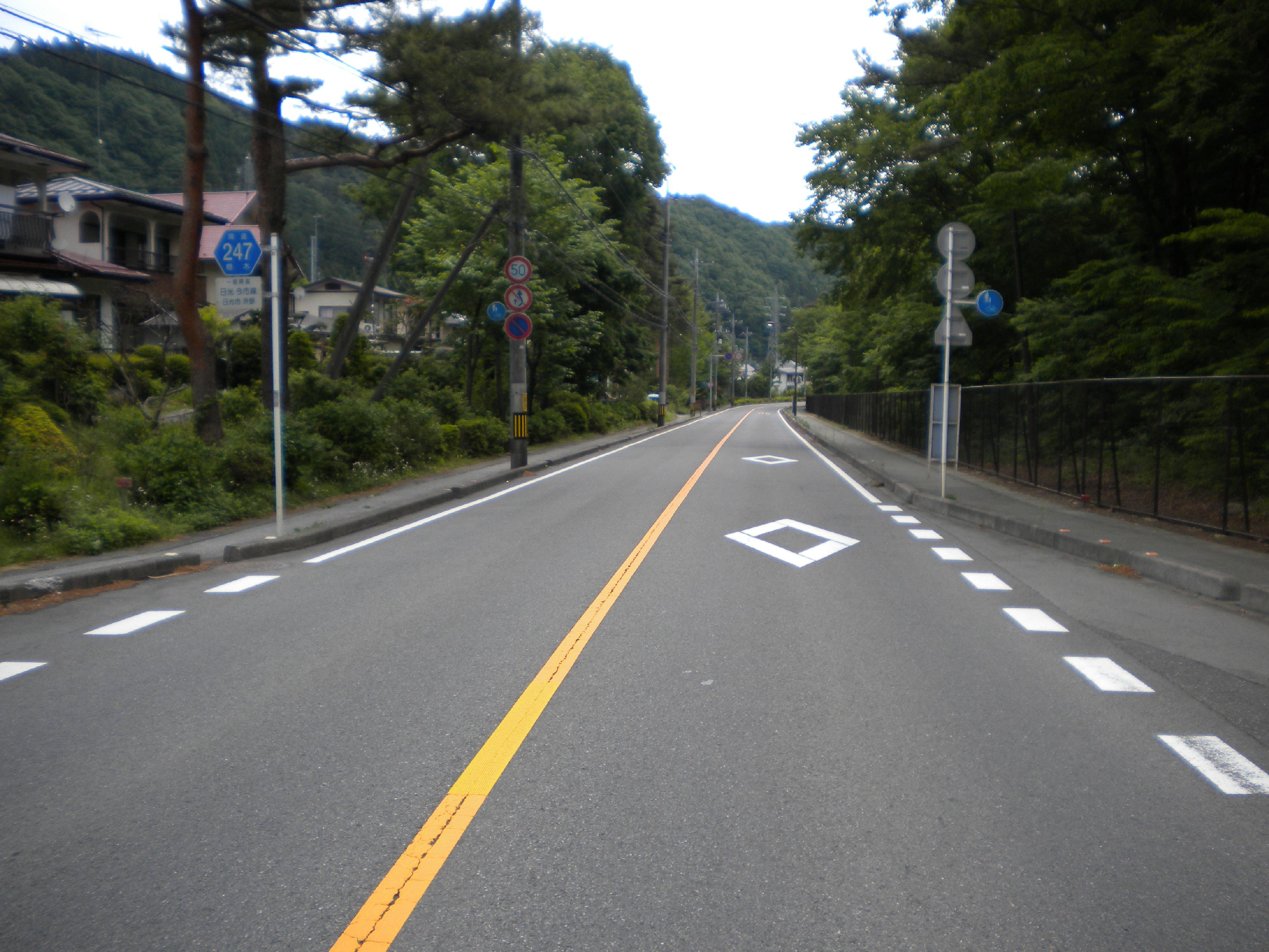 The Tochigi Prefectural Road Route 247 in Tokorono, Nikko City